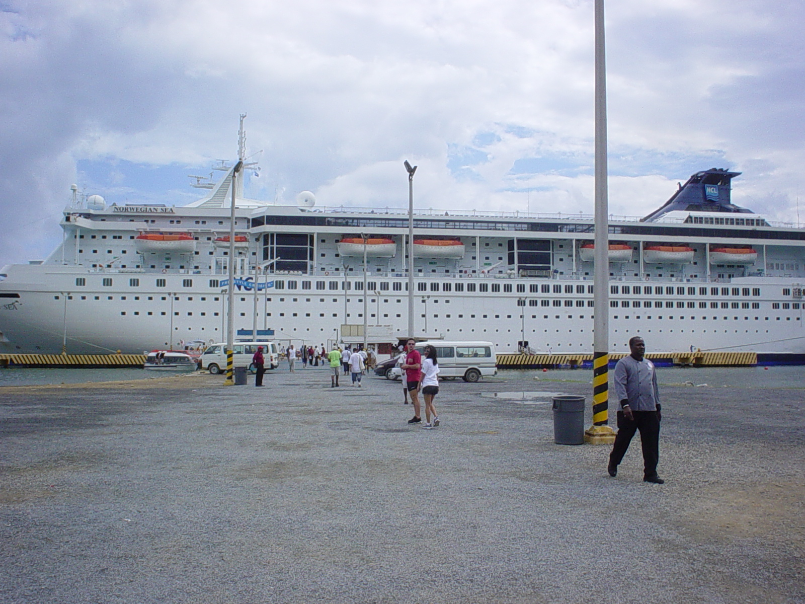 The Norwegian Sea docked at Roatan, Honduras on March 23, 2004.